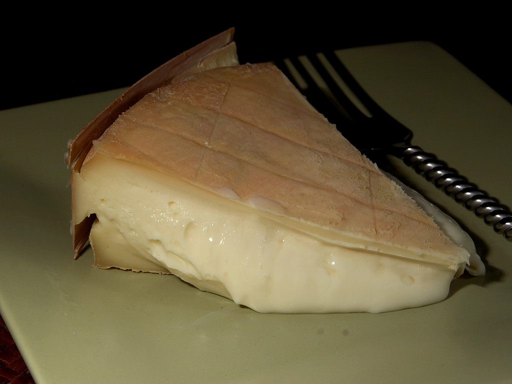 Stinking Bishop cheese. flopped image of File:Stinking bishop cheese.jpg